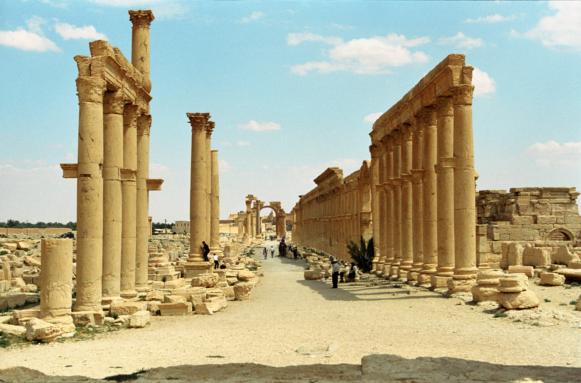 Palmyra, the Grande Colonnade Street